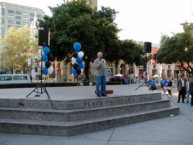 Earthquakes radio/TV announcer John Schrader is the emcee.